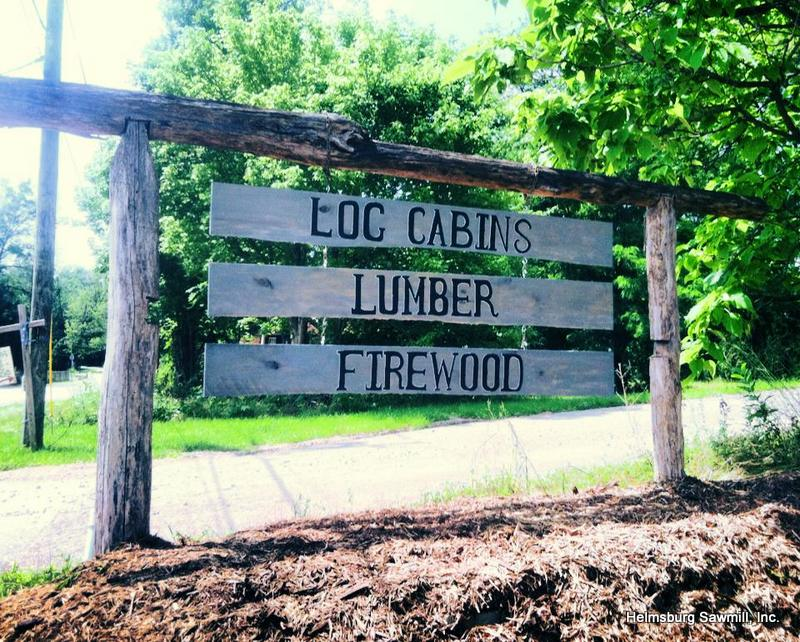 Business Entrance for Helmsburg Sawmill, Inc.